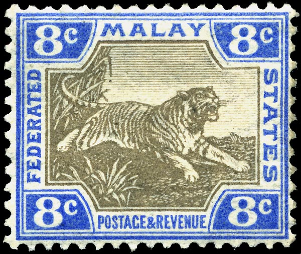 Malaya 8c stamp of 1905